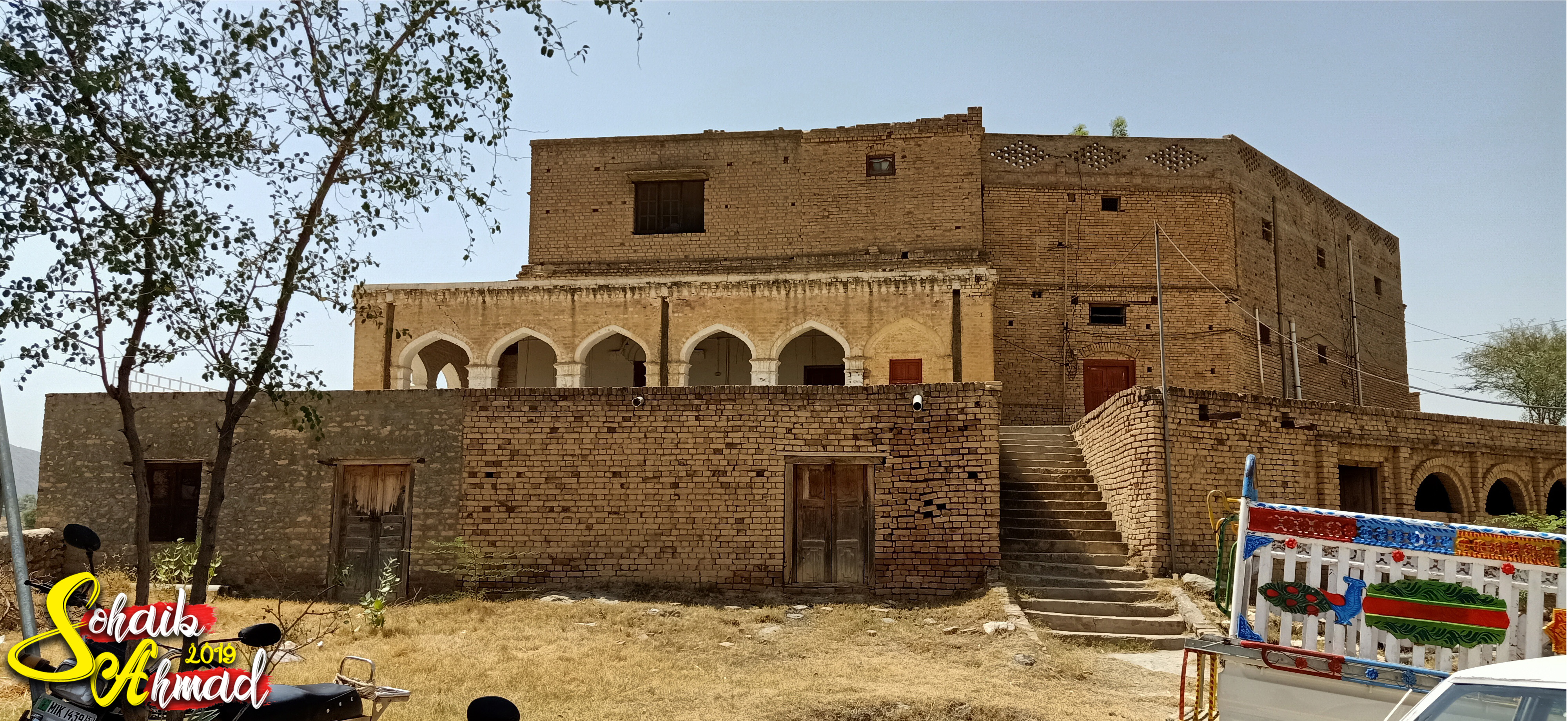 Thamewali 2019 | SohaibAhmadu